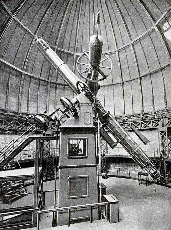 Photograph of the Photographi Telescope located at the Allegheny Observatory near Pittsburgh, PA circa 1914